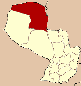 Map of Paraguay highlighting the departemet Alto Paraguay